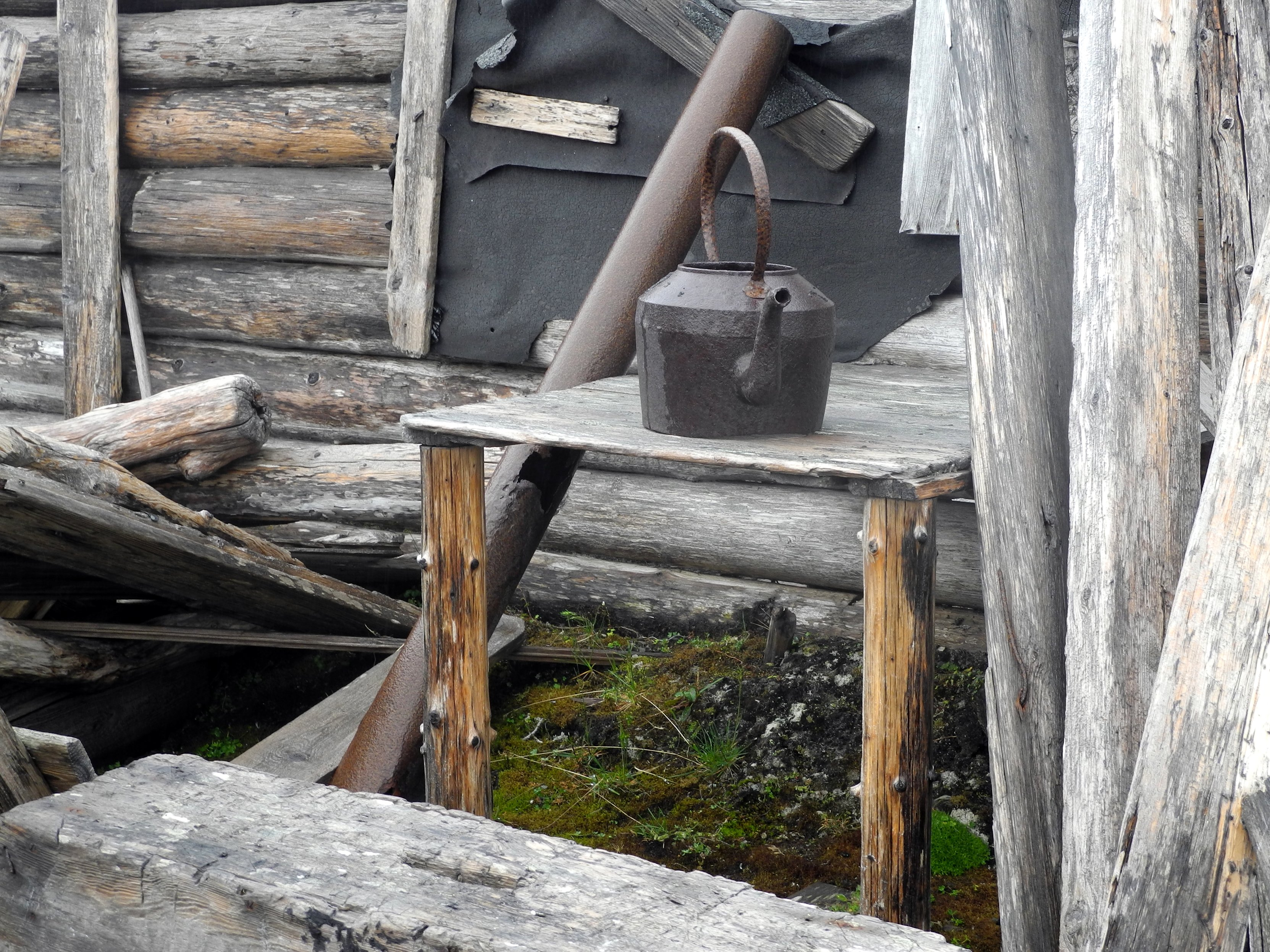 Interior of the cabin at Selvågen, Prins Karls Forland.